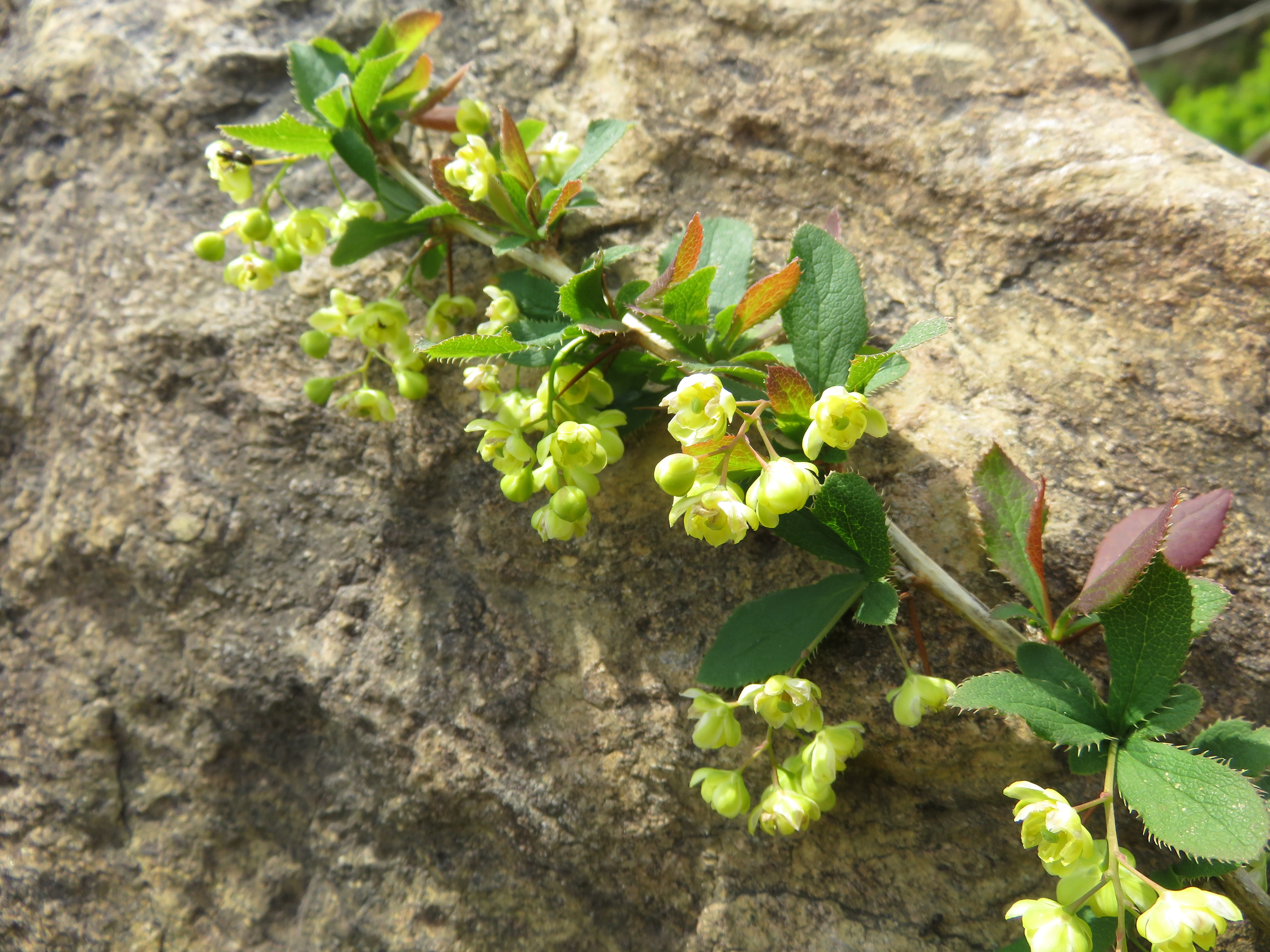 Berberis amurensis, Mount Hayachine, Iwate pref., Japan